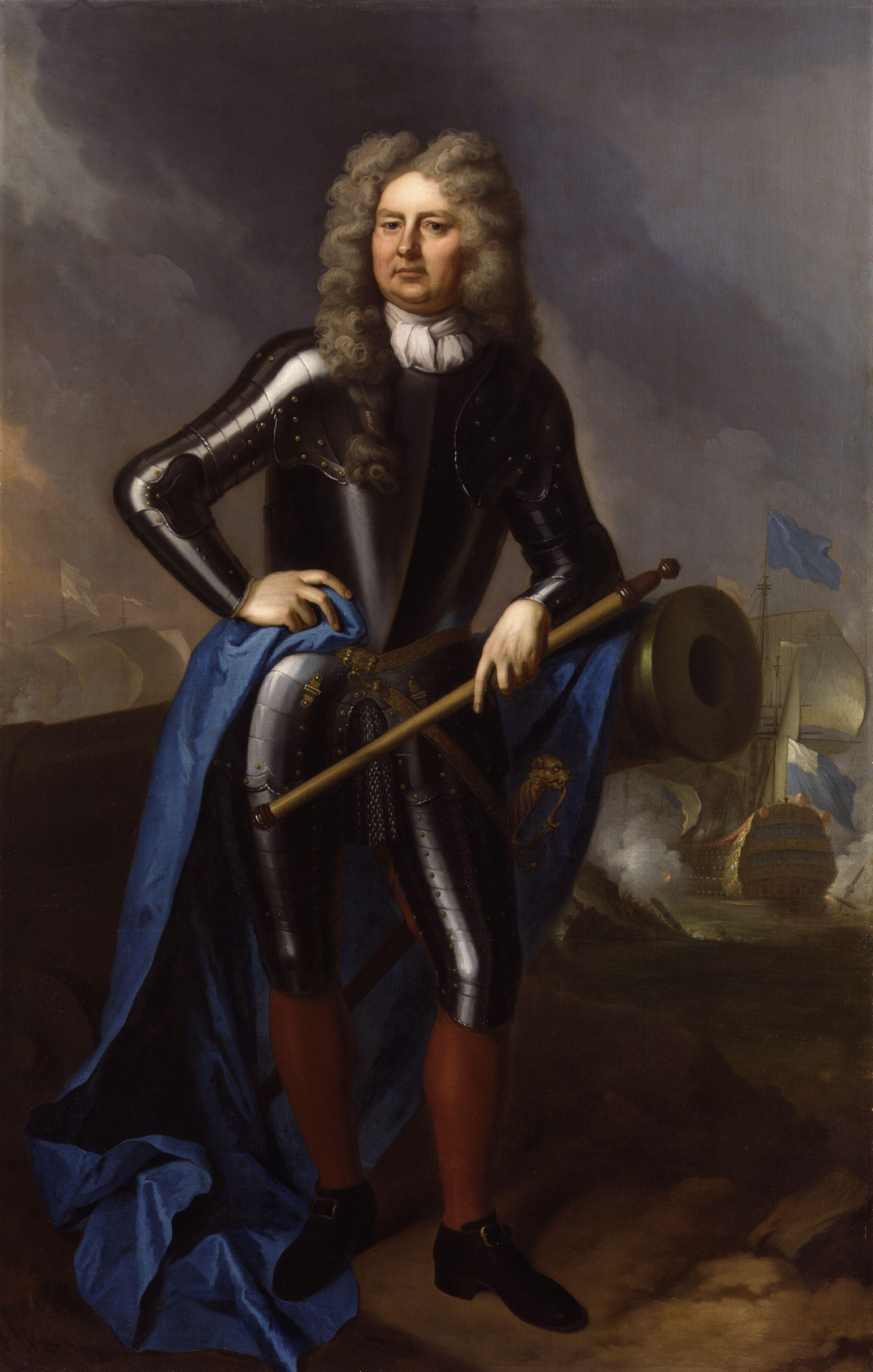 All images in this batch have been confirmed as author died before 1939 according to the official death date listed by the NPG.